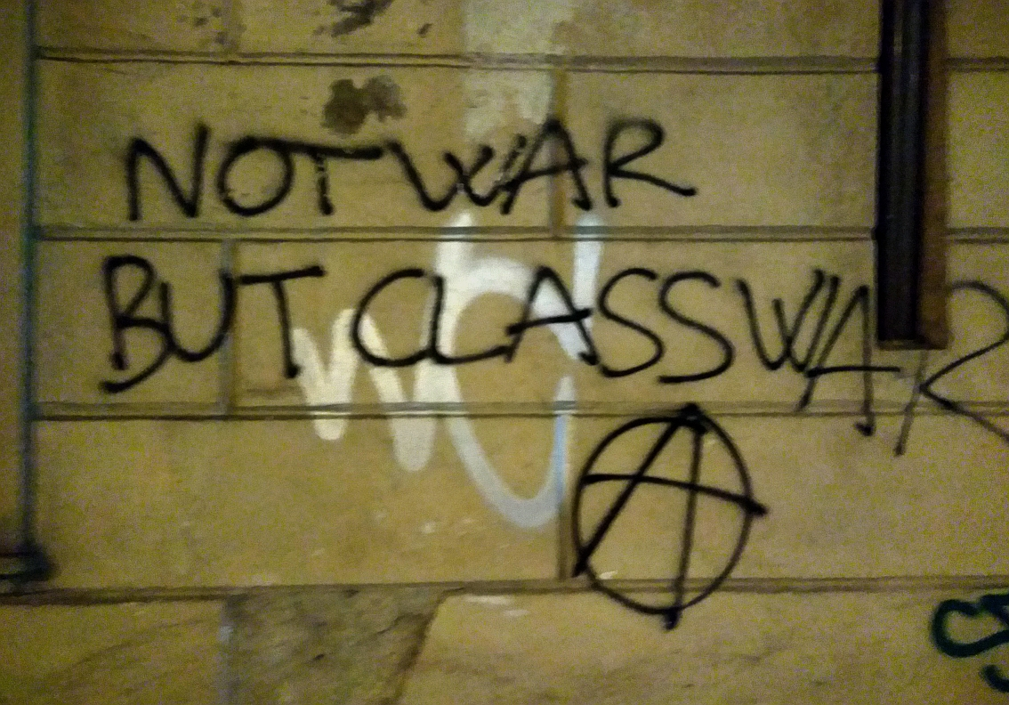 Not War but Class War (graffiti in Turin, Italy)